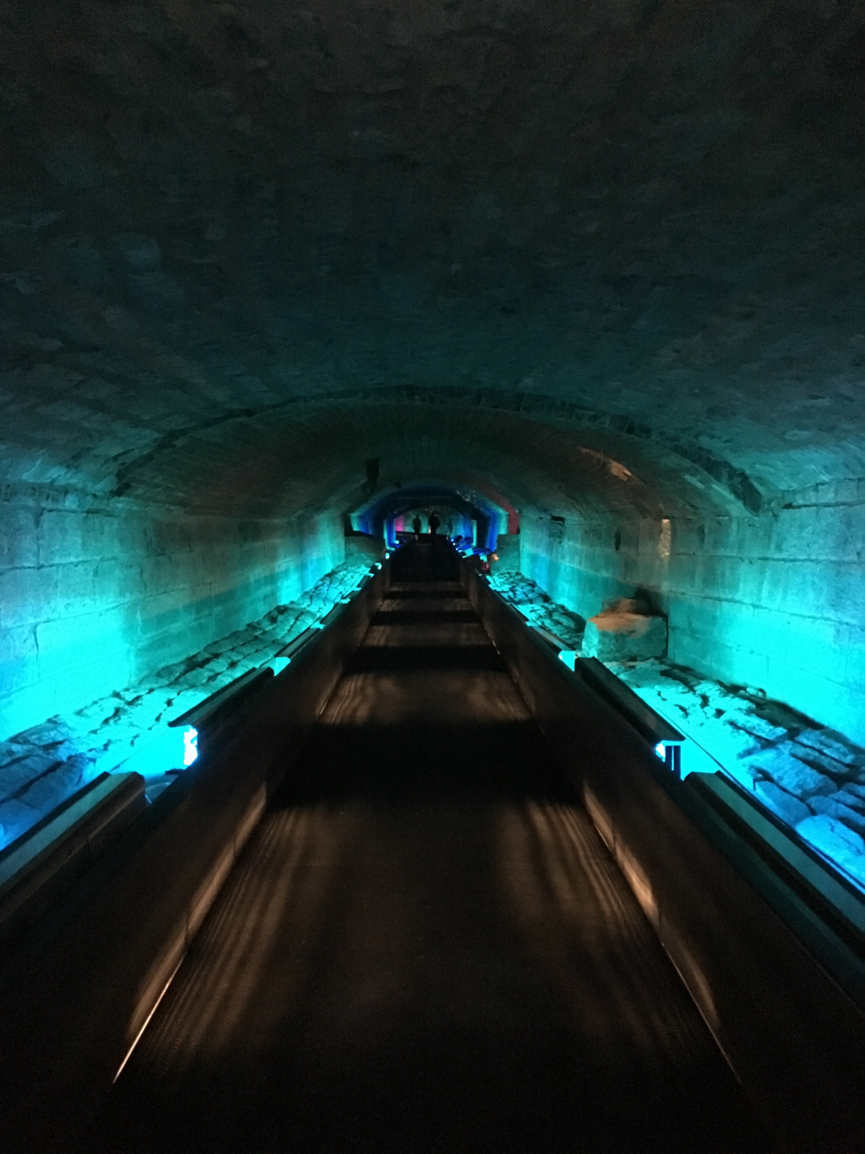 The William Collector Sewer within Pointe-à-Callière